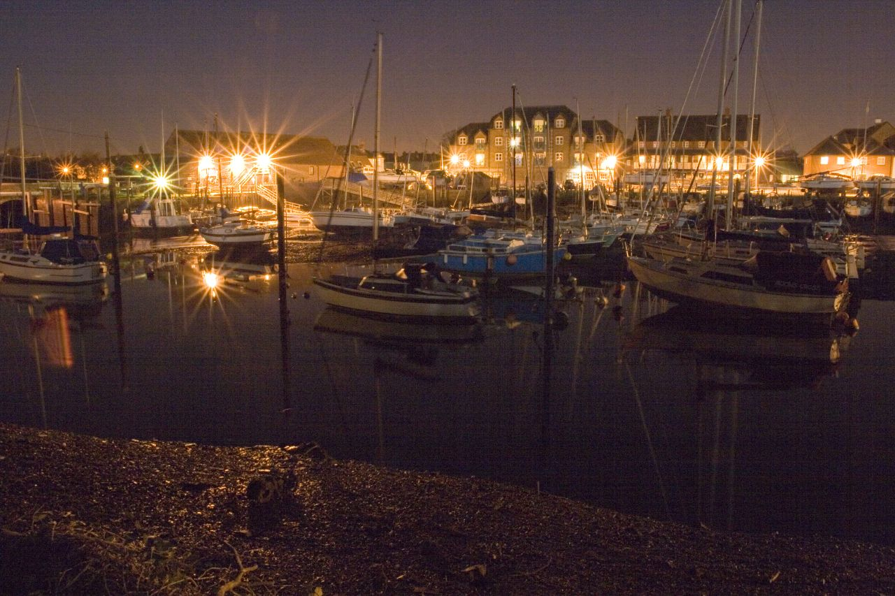 Eling tide mill, near Totton Southampton at low tide.